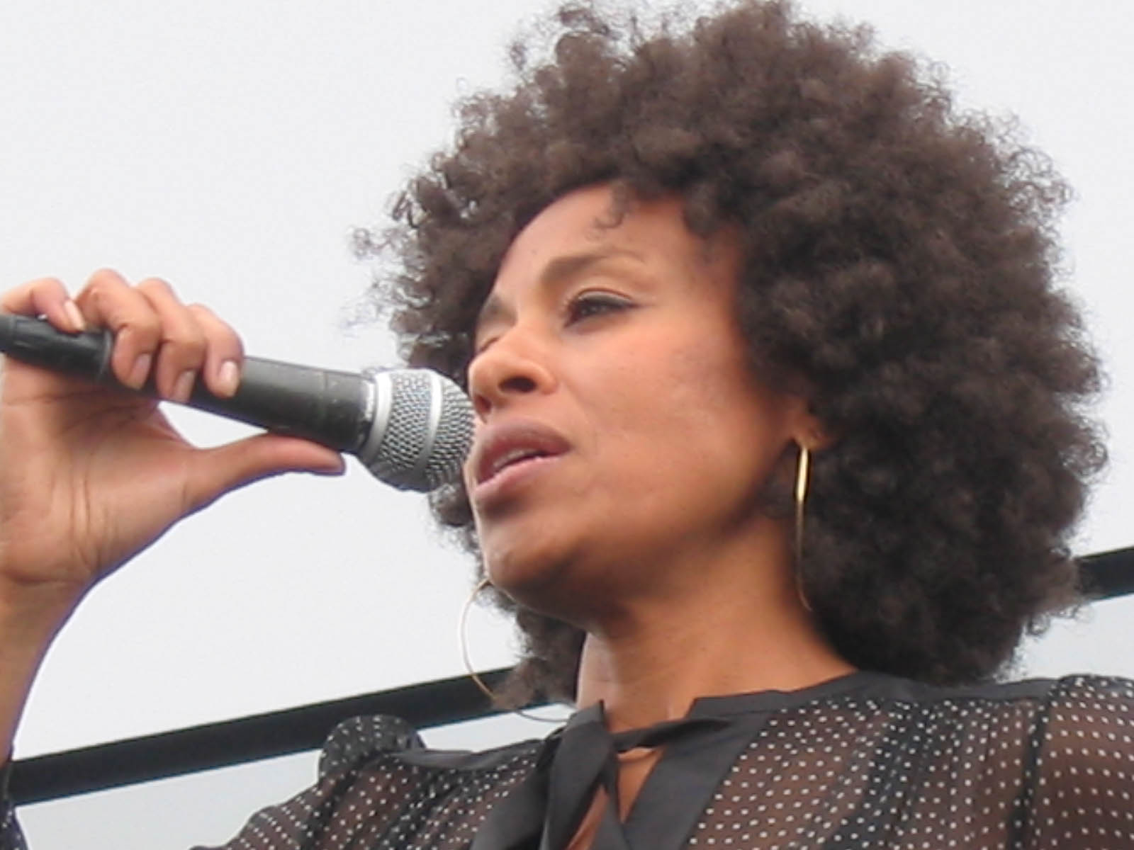 in open air concert, Jazzfest Wien